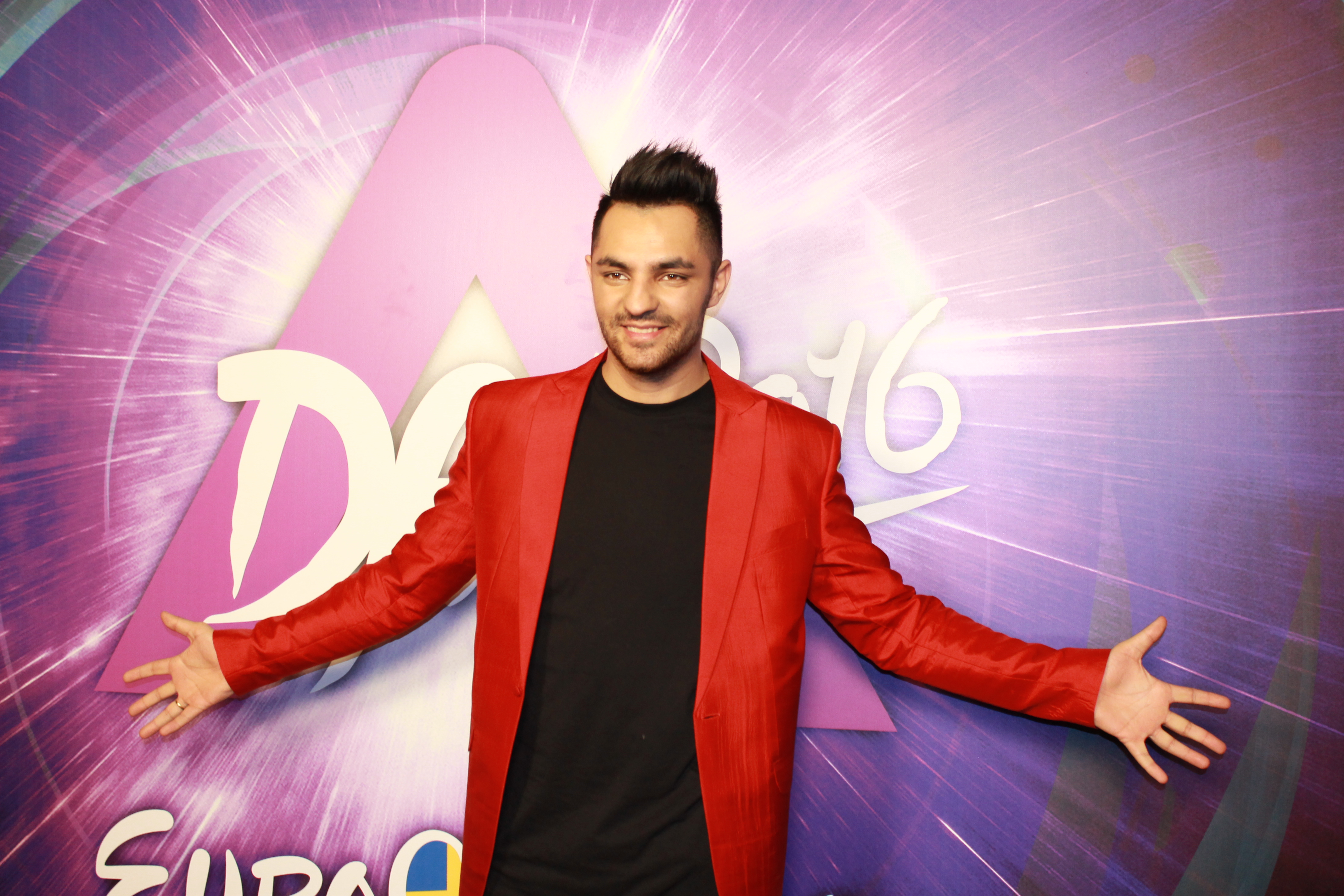 A Dal 2016 finalist: Gergő Oláh